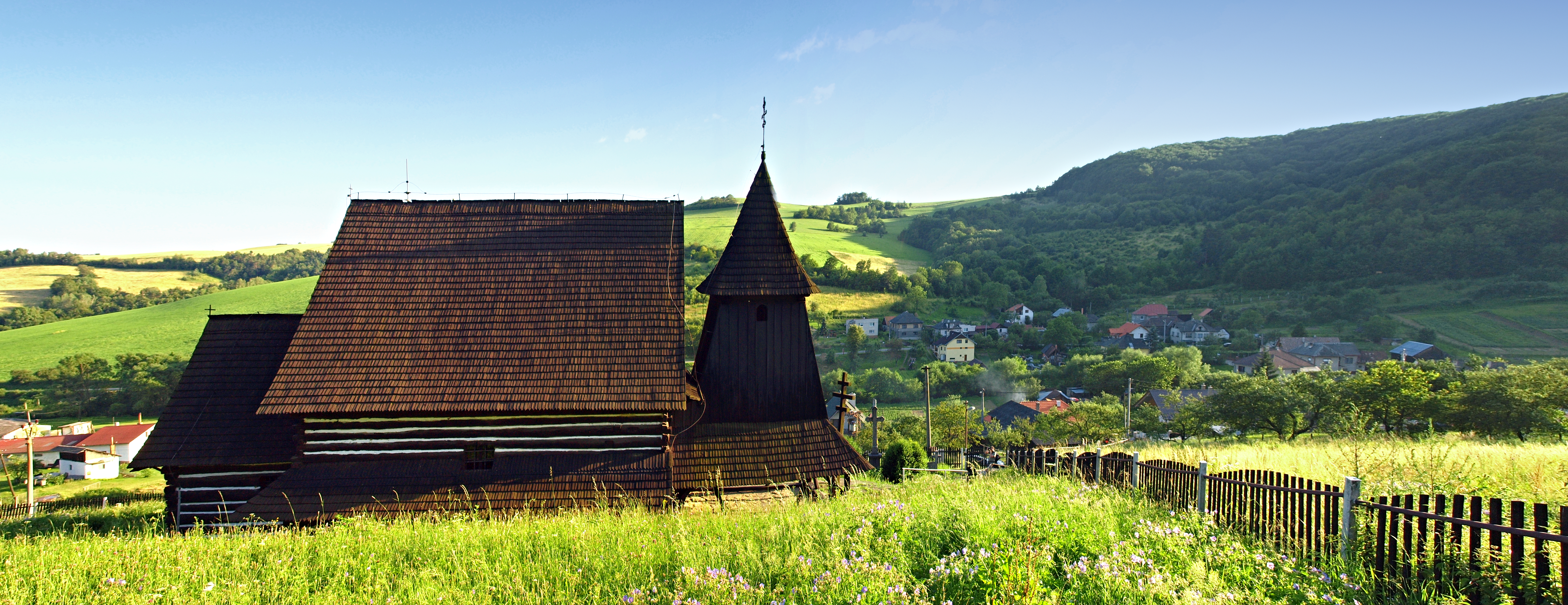 Brežany (Slovakia) - GrecoCatholic church (1727) and village This medium shows the protected monument with the number 707-272/0 in the Slovak Republic.